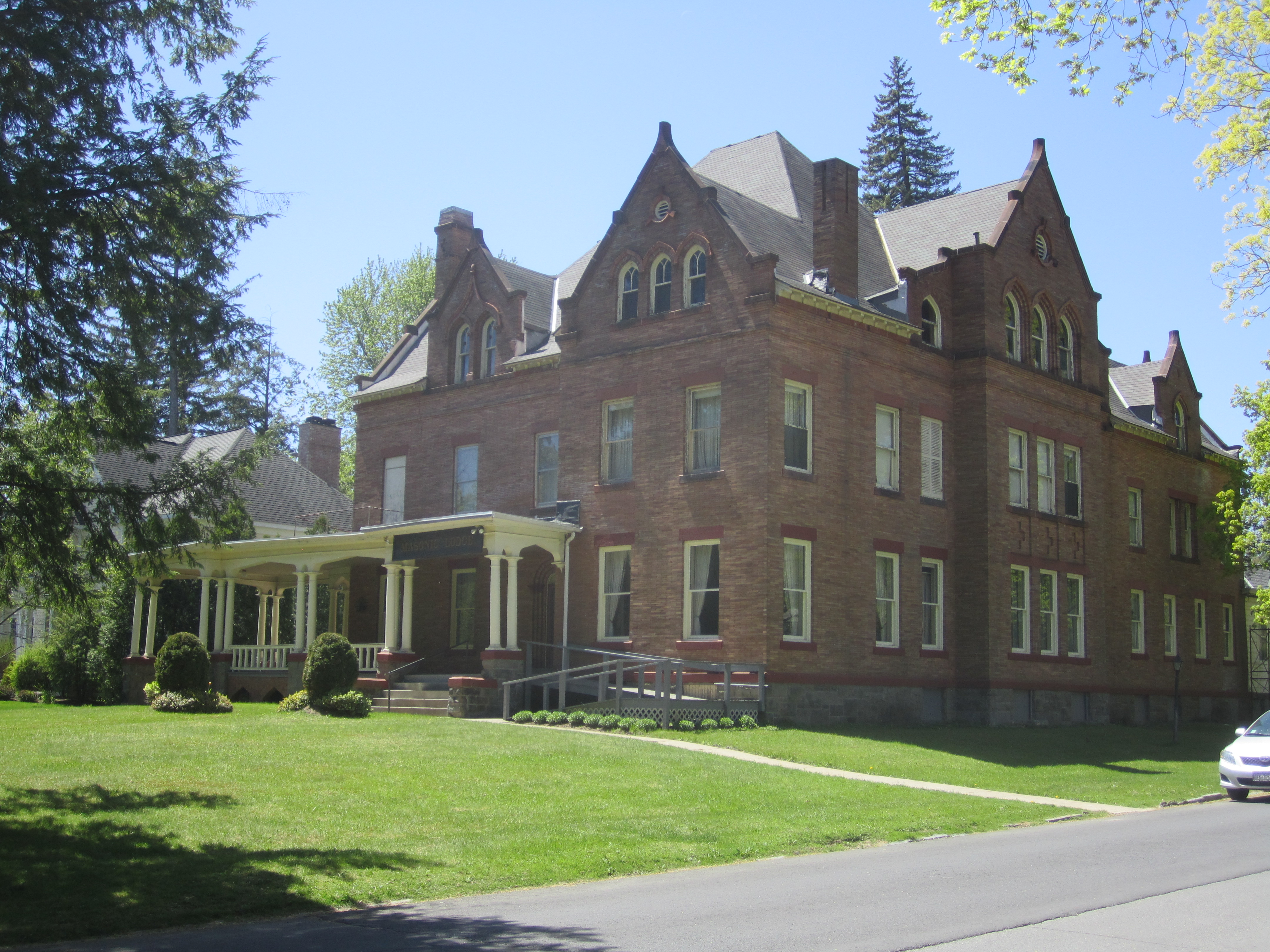 687 North Broadway, NY. Designed by R. Newton Brezee for Harry S. Ludlow, 1904